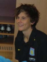 Chris Herd, after training at the Bodymoor Heath Complex in November 2007.